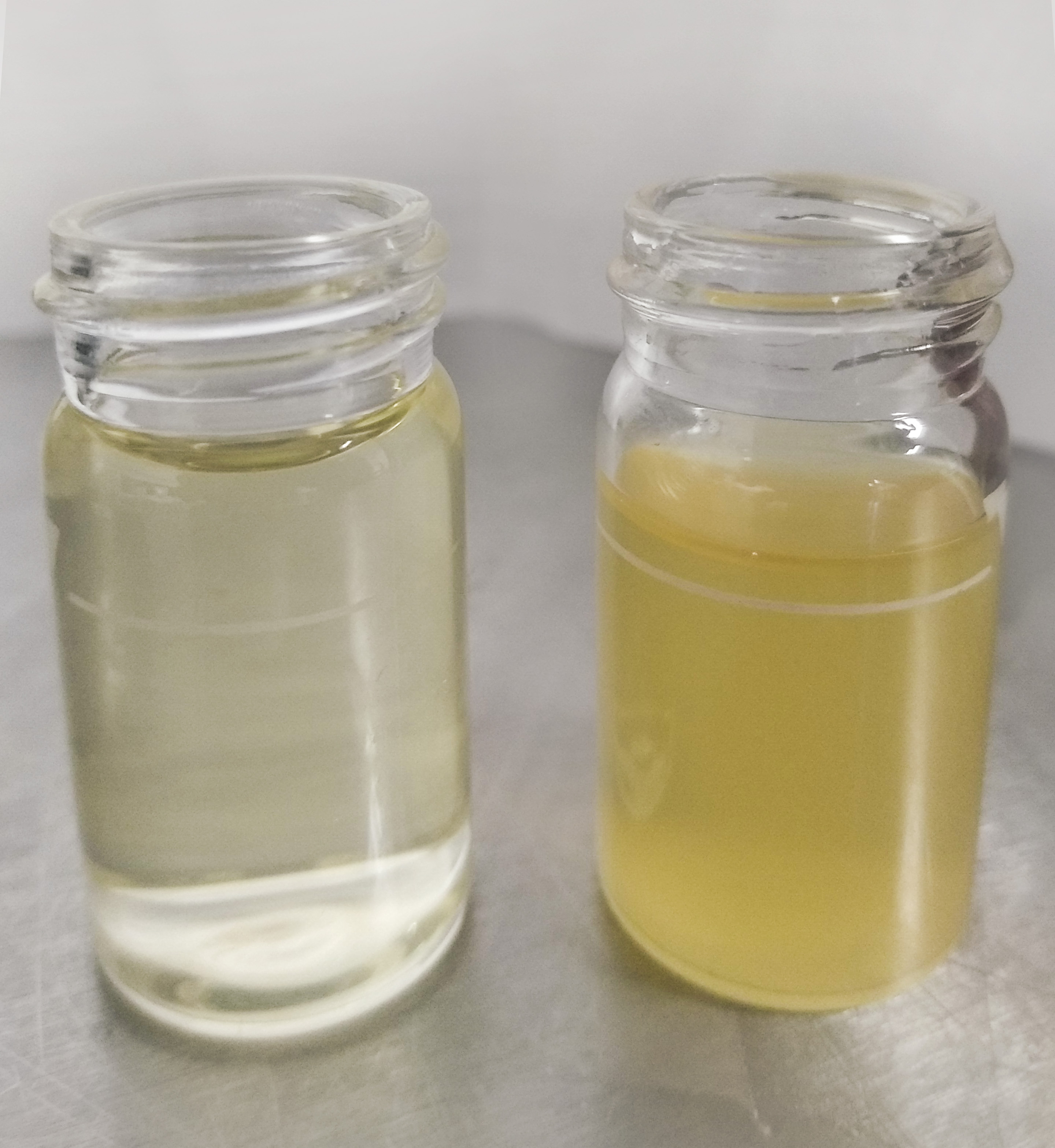 Different wine turbidity samples